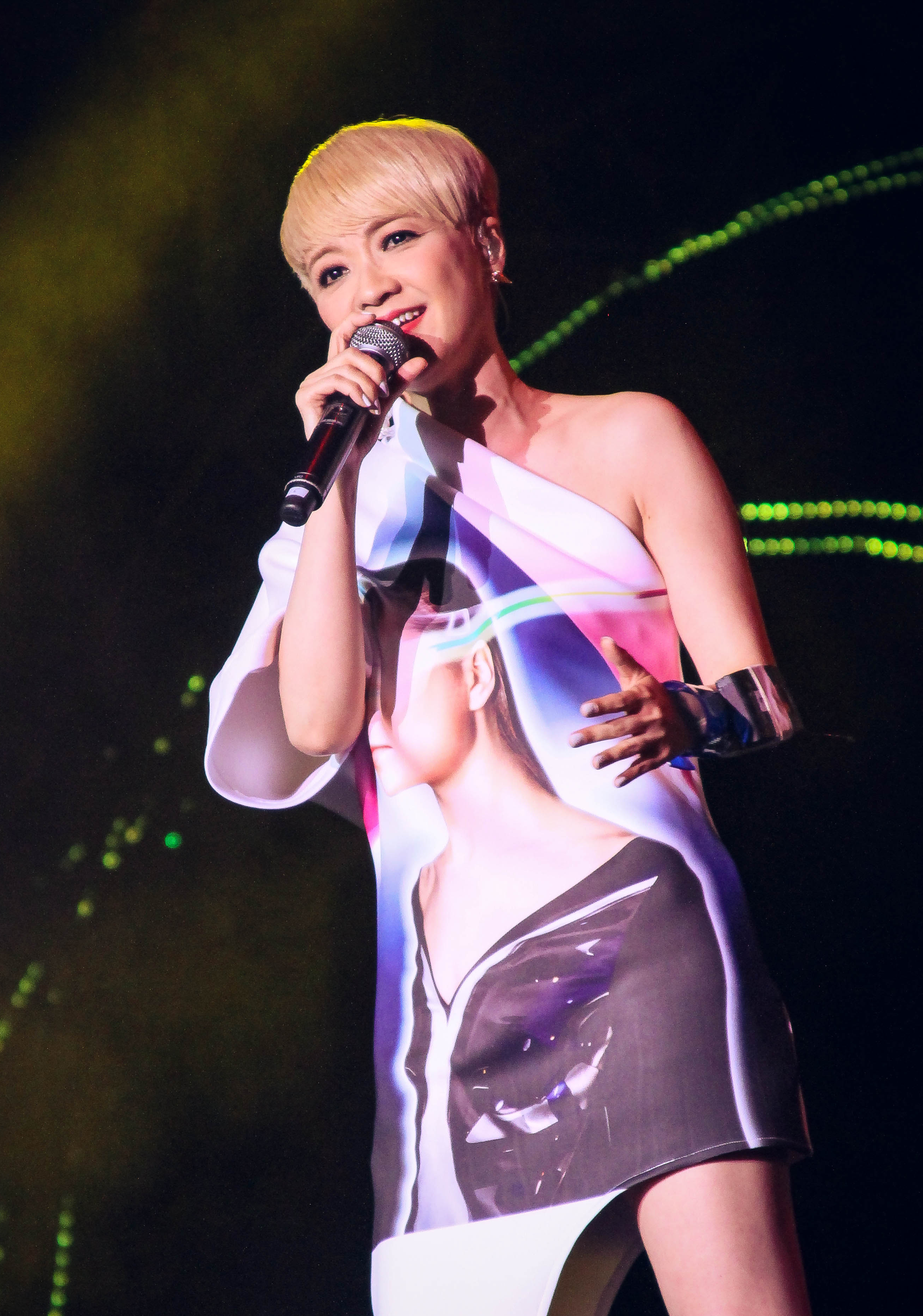 Priscilla Chan was performing in Polygram Forever Live Concert in Singapore